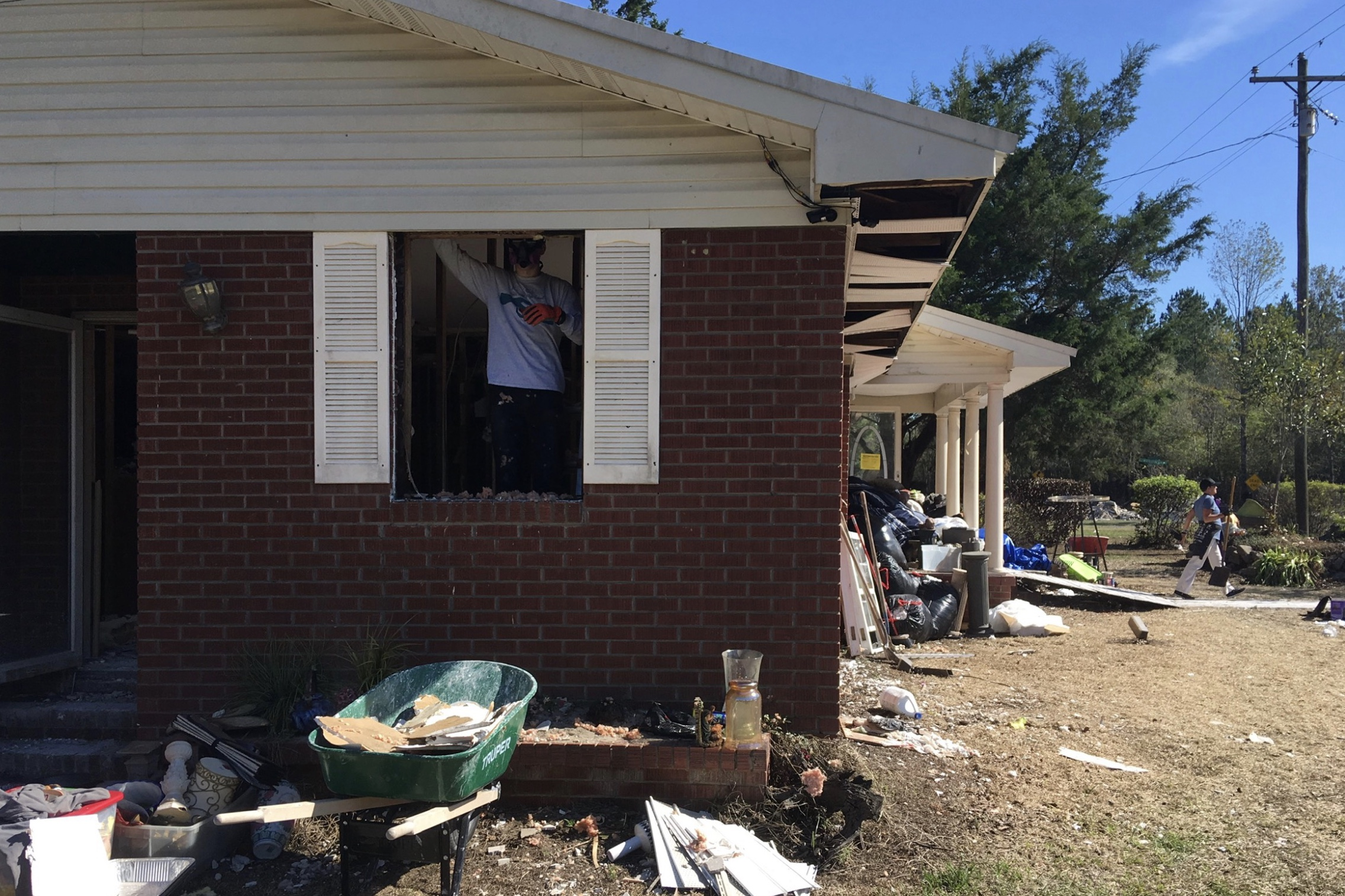 Flood waters during and after the storm devastated many areas of Pender County. Many groups and individuals volunteered to help home owners remove the damage done to their properties.